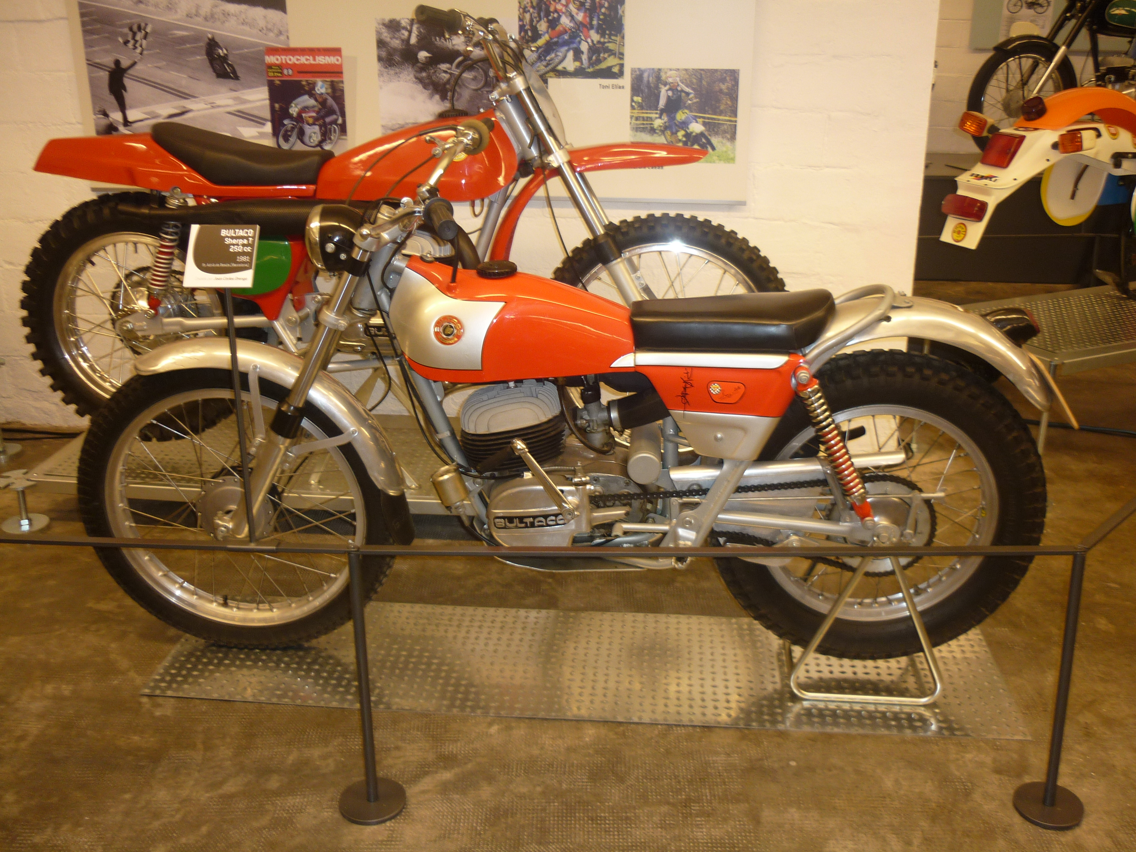 Behind: Bultaco Pursang MK2 250cc (1967). Front: Bultaco Sherpa T 250cc (1971).Museu de la Moto de Barcelona (Catalonia).